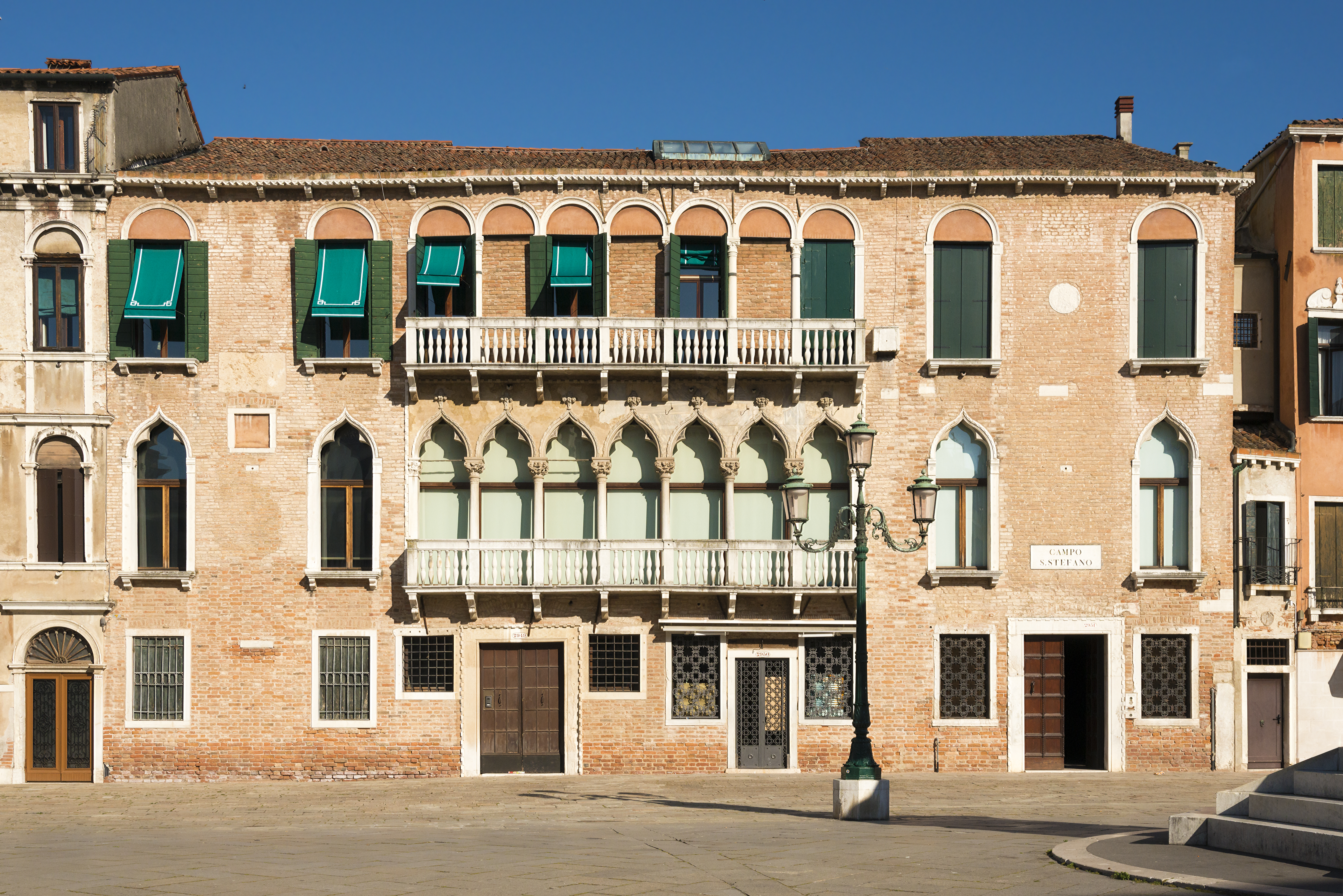 Magistrato alle Acque Campo Santo Stefano in Palazzo Lezze, Venice.